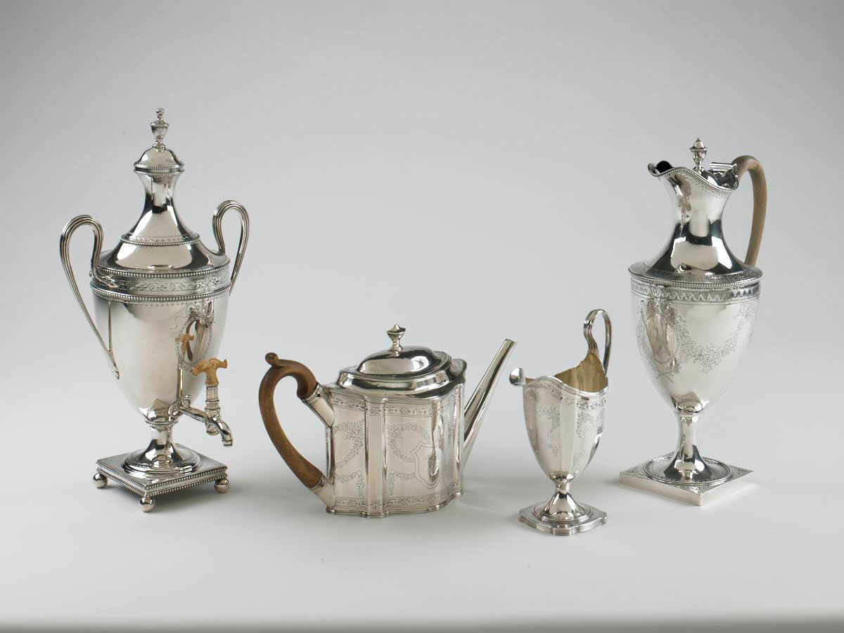 Four pieces of silverware created by a family of silversmiths in London, the Batemans. From left to right, these items are a hot water urn, a teapot, a creamer, and a hot water jug. The teapot was crafted by Peter and Ann Bateman, while Hester Bateman made the other three.